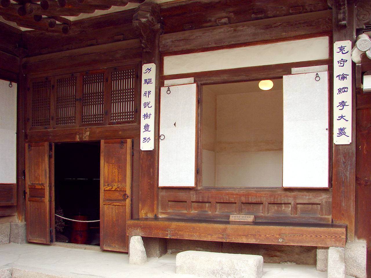 Unhyeon Palace (운현궁) is the former Korean royal residence of Prince Regent Daewon-gun, ruler of Korea during the Joseon Dynasty in the 19th century, and father of Emperor Gojong. The site dates from the 14th century. In 1993 Unhyeon Palace underwent 3 years of renovations to restore its earlier appearance.